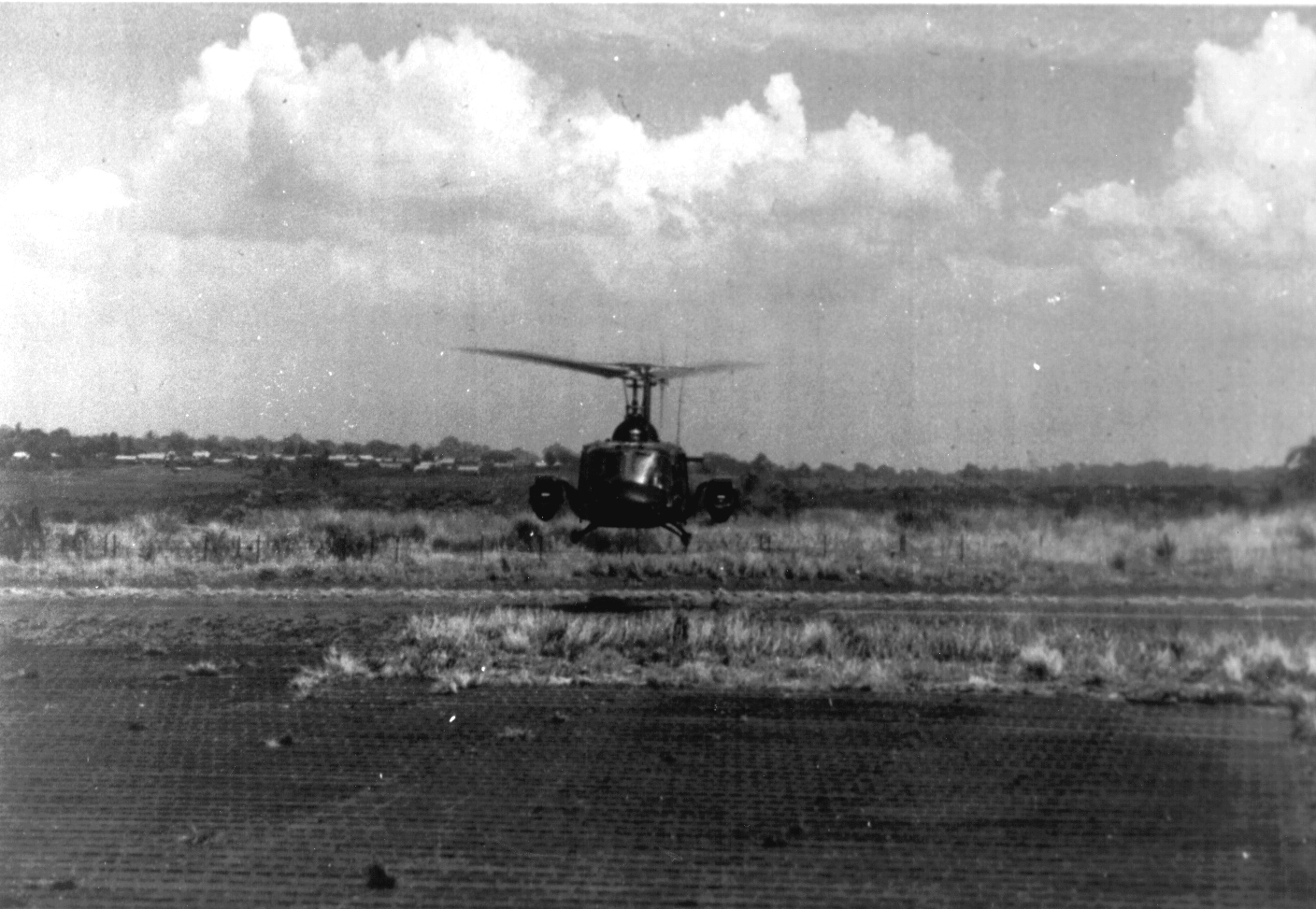 UH-1B HELICOPTER WITH TOW MISSILES lifts off strip at Pleiku.